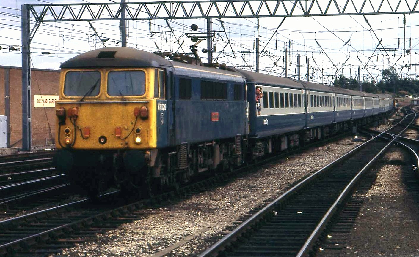 87020 Carlisle